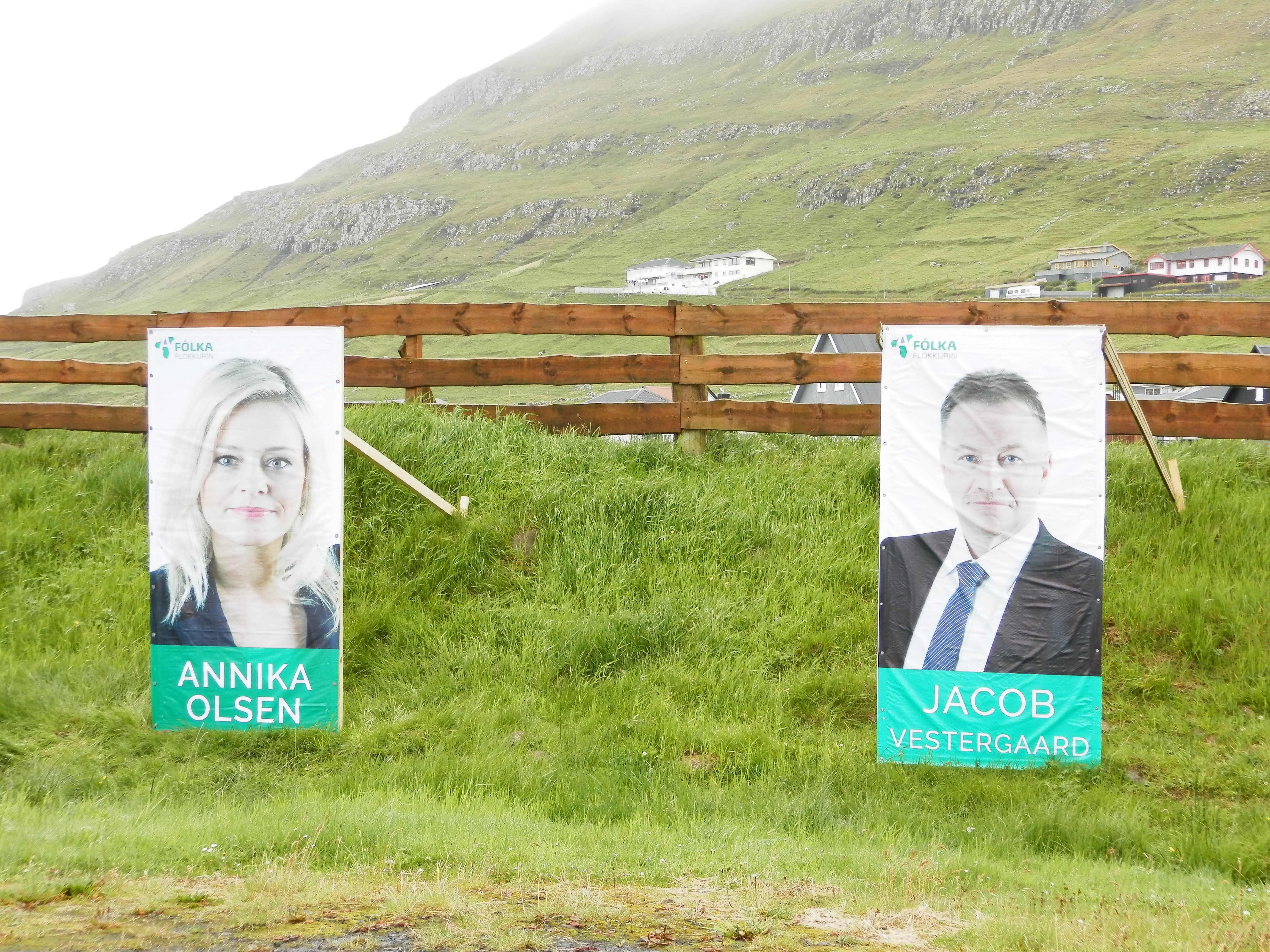 Election posters in Vágur, Faroe Islands four days before the parliamentary election 1 September 2015.